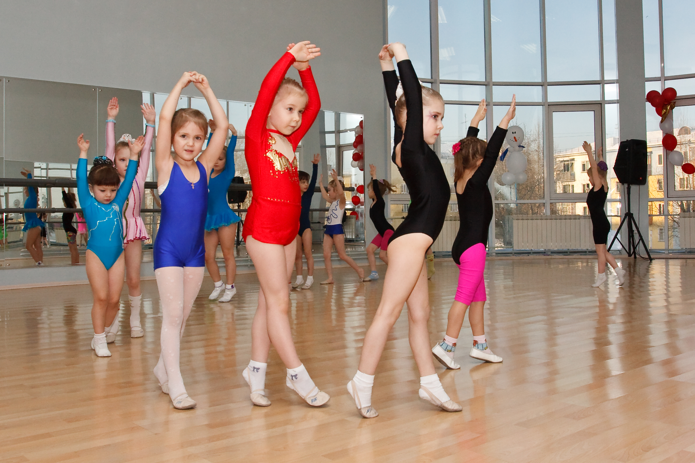 Training of young gymnasts (Angarsk, Russia).